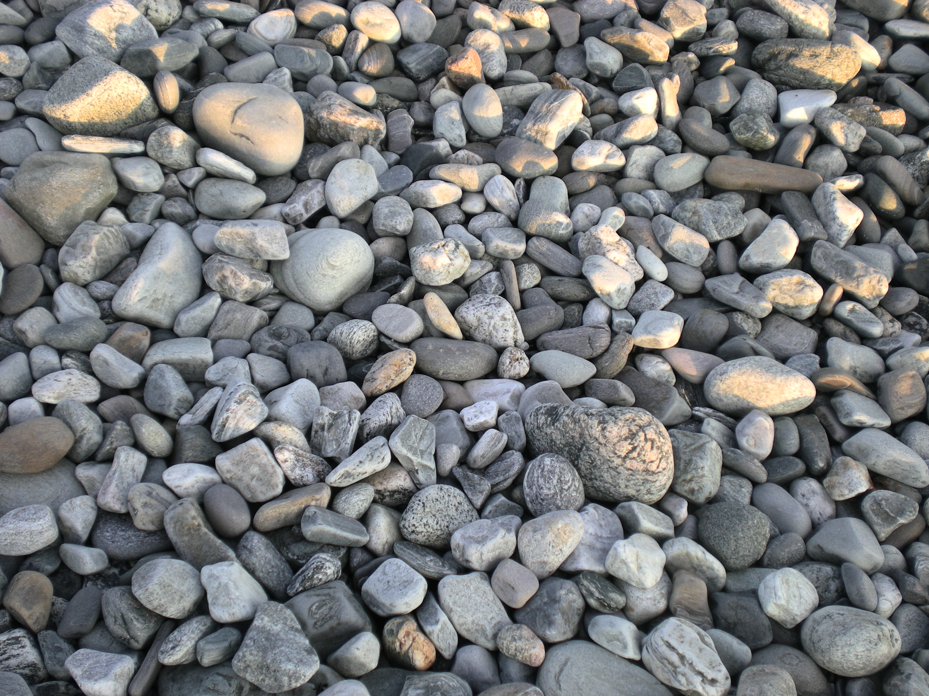 Rocks from coastal area north Norway